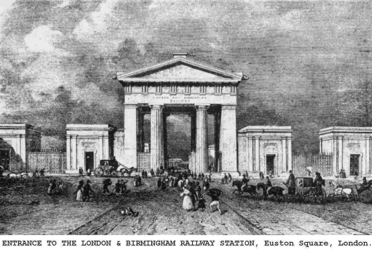 "Euston Arch:" the original entrance to Euston Station, ca 1851